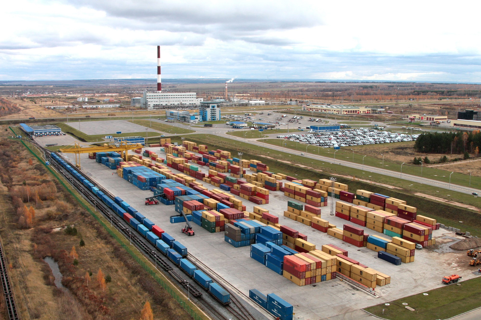 Container platform